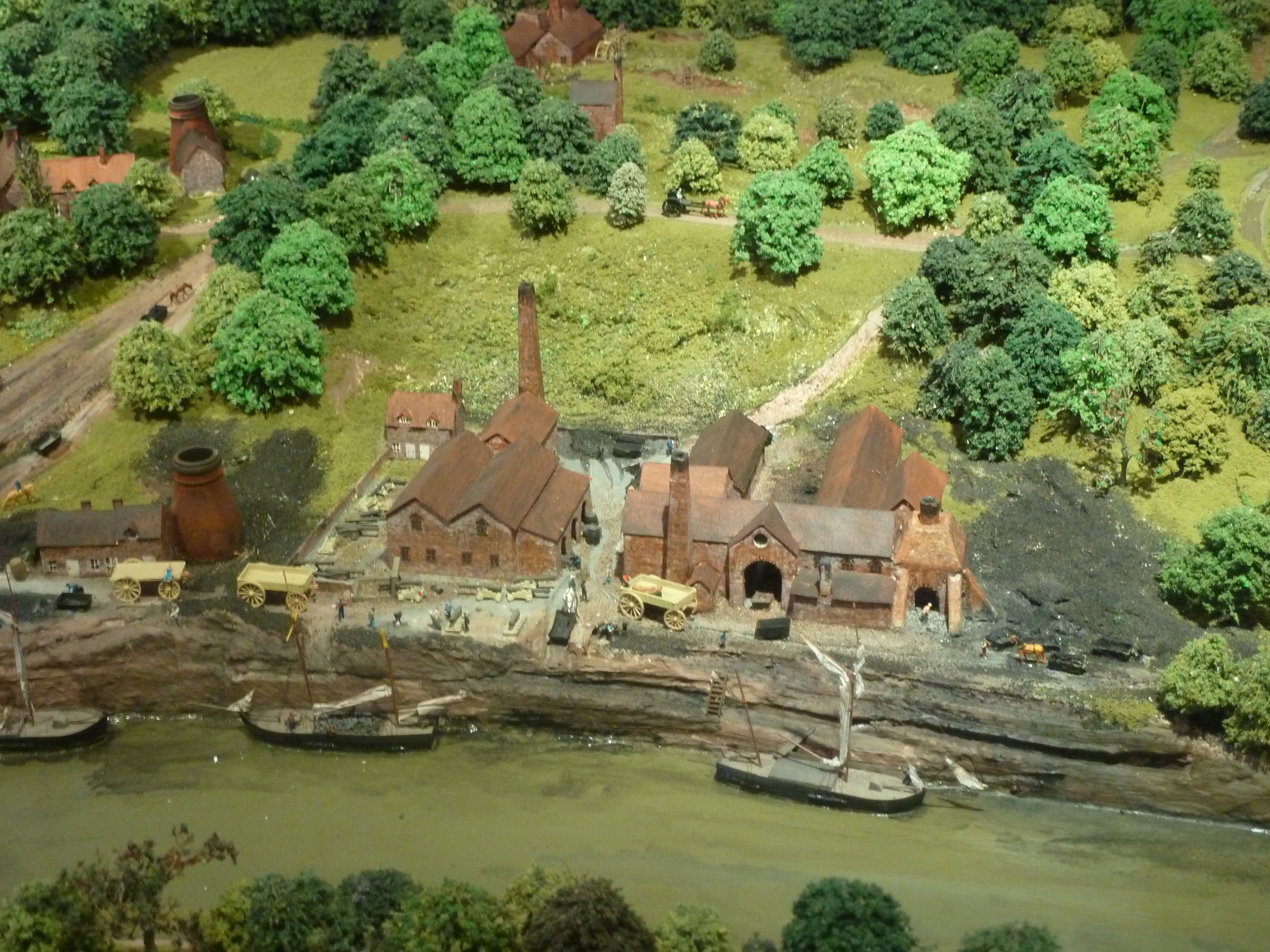 The Ironbridge Gorge diorama inside the Museum of the Gorge, Ironbridge. The ironworks is now the site of the Jackfield Tile Museum.